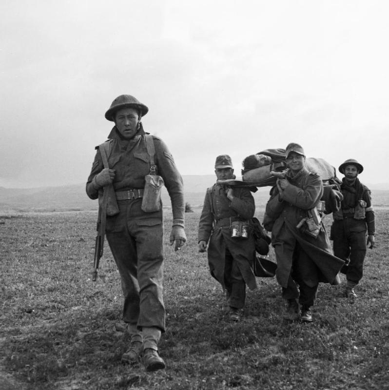 German POWs help carry a wounded British soldier during 6th Armoured Division's attack on the town of Pichon in Tunisia, 8 April 1943. A soldier escorts captured Germans bringing in a stretcher during 6th Armoured Division's attack on the town of Pichon, 8 April 1943.